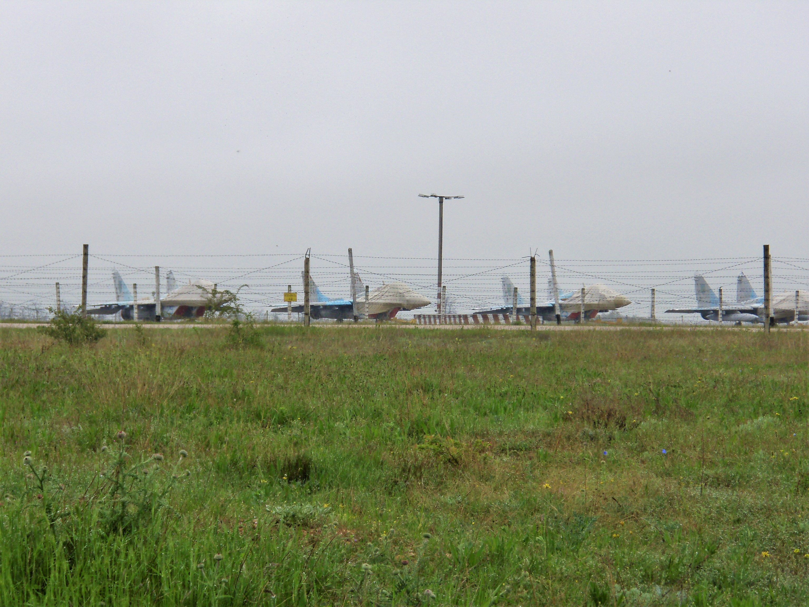 Airport Belbek (IATA: UKS), (ICAO: UKFB)